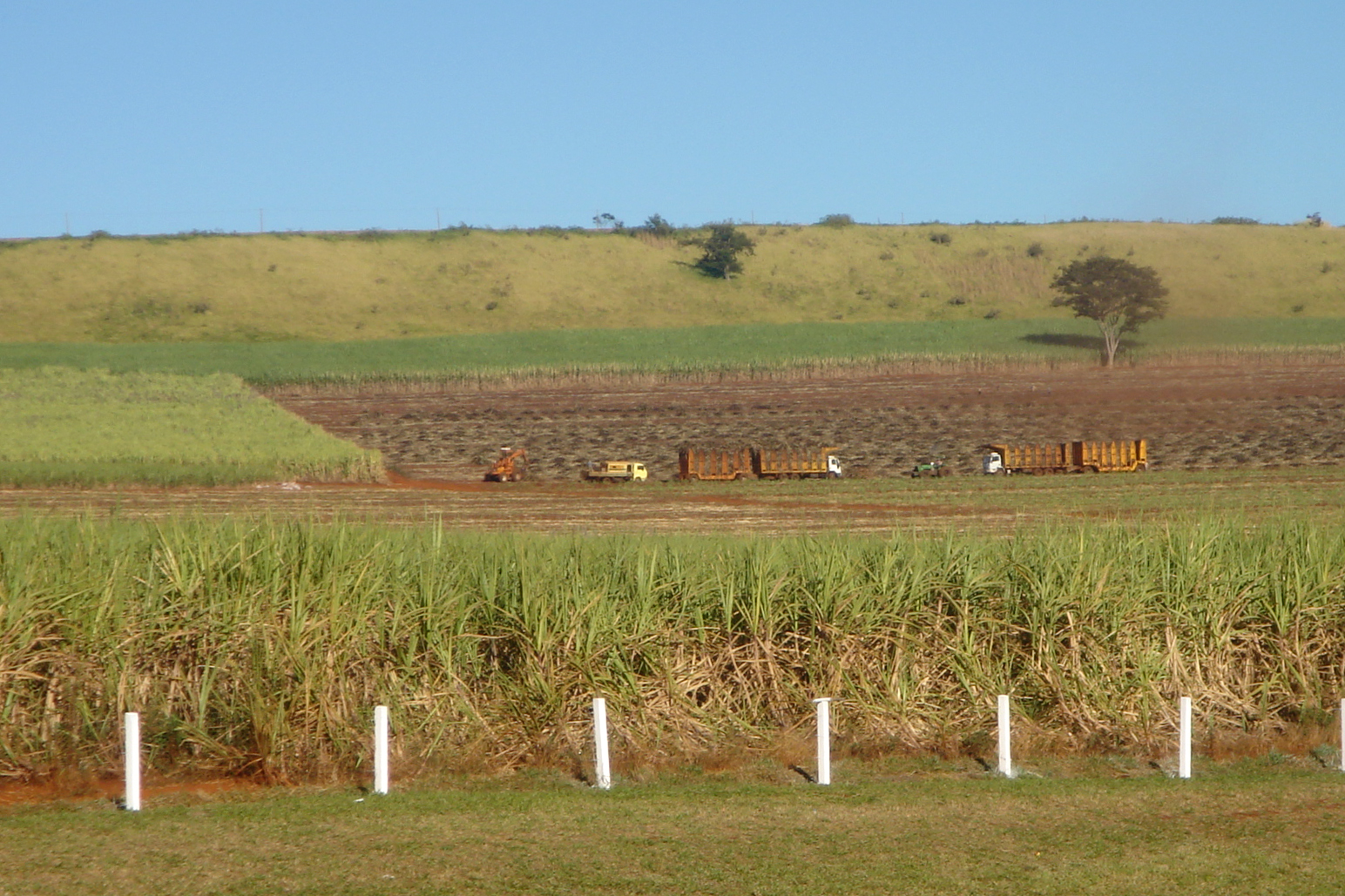 Pic shows sugar cane harvesting (loading and transport to processing plant) without burning the plantation at Sao Paulo State, Brazil